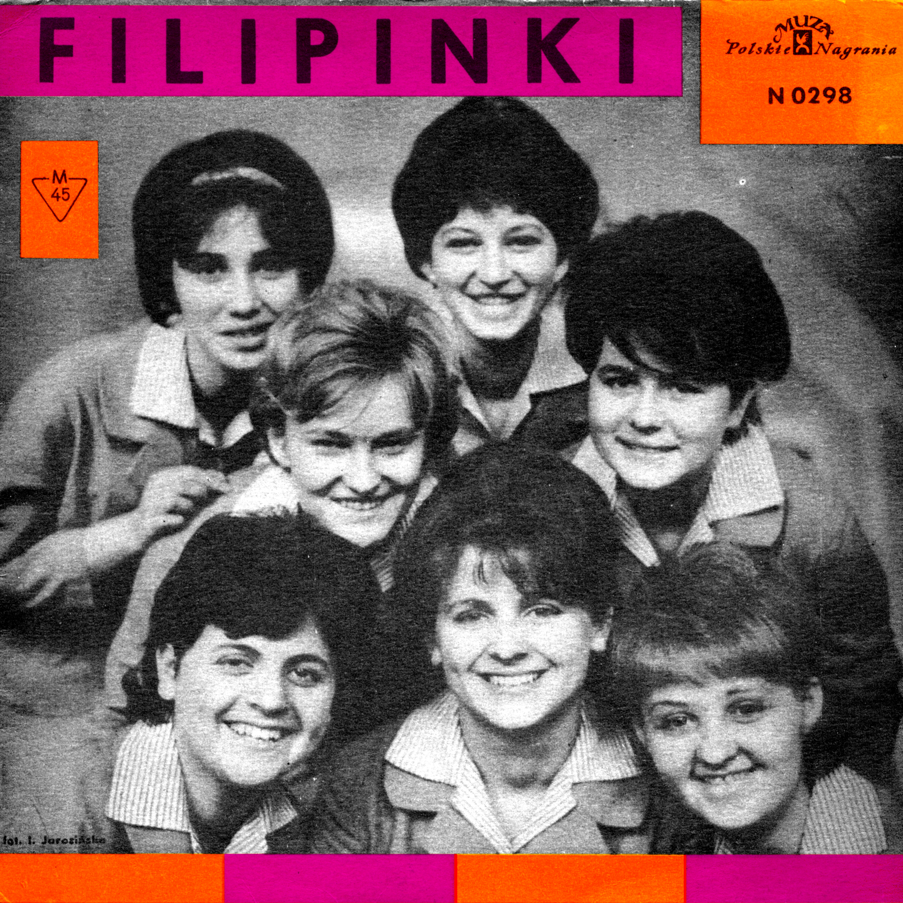 Filipinki, N0298, 1964